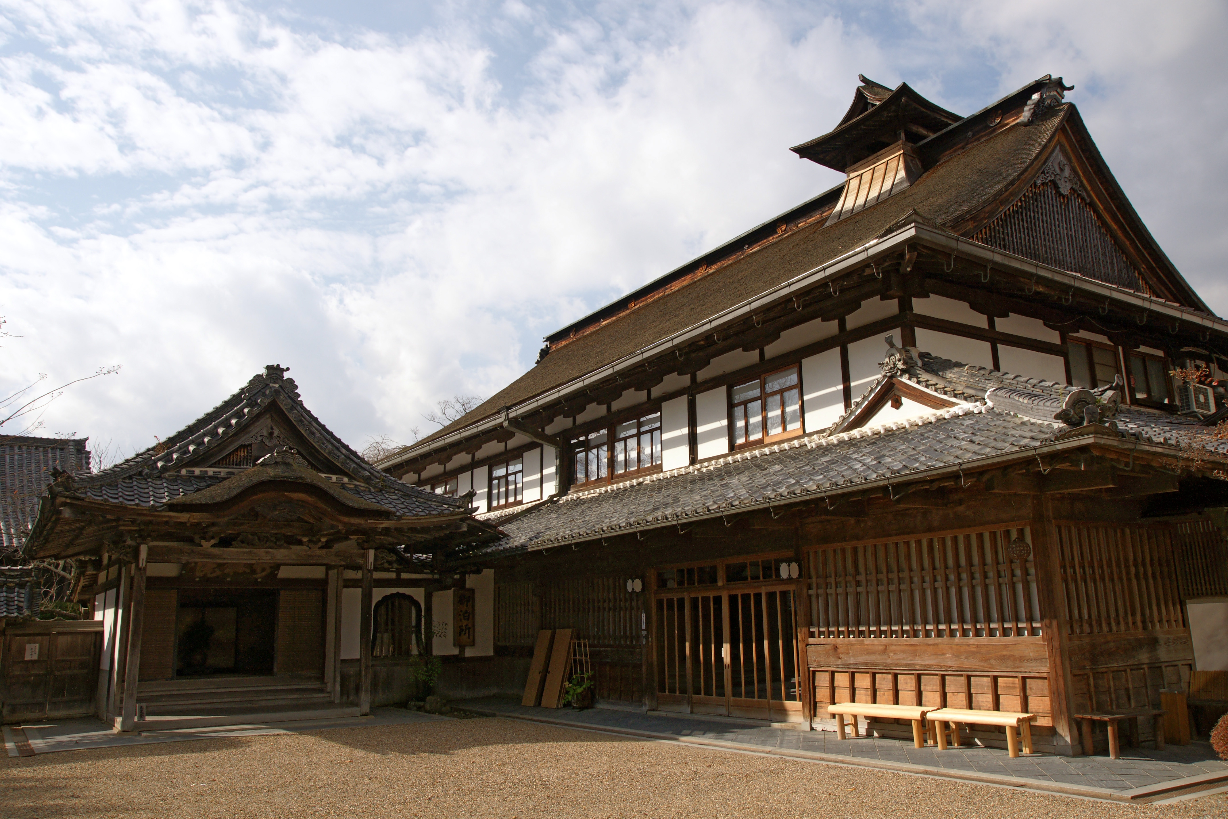 Chikurinin in Yoshino, Nara prefecture, Japan